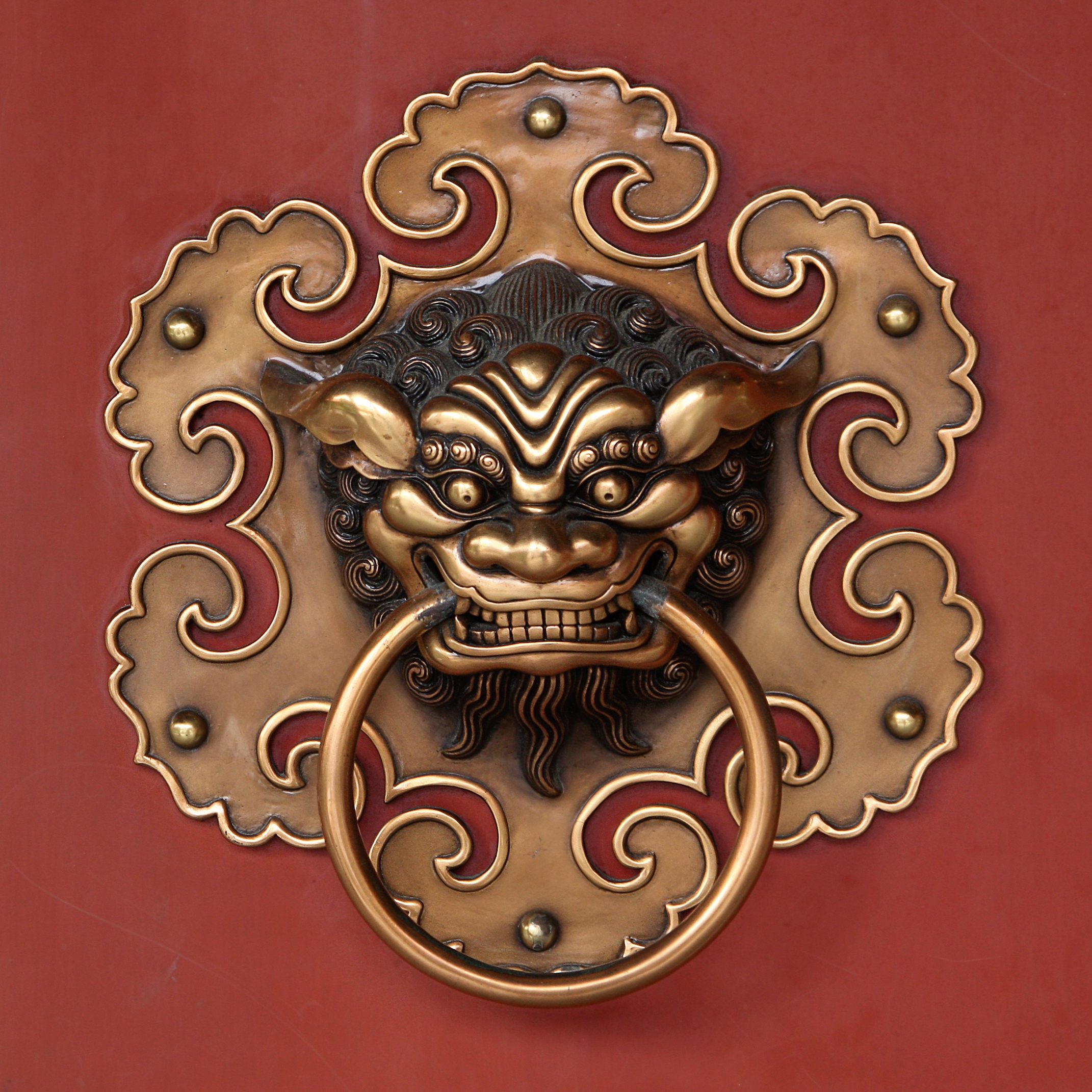 Doorknob of the Lian Shan Shuang Lin Temple in Singapore, shaped as a jiaotu